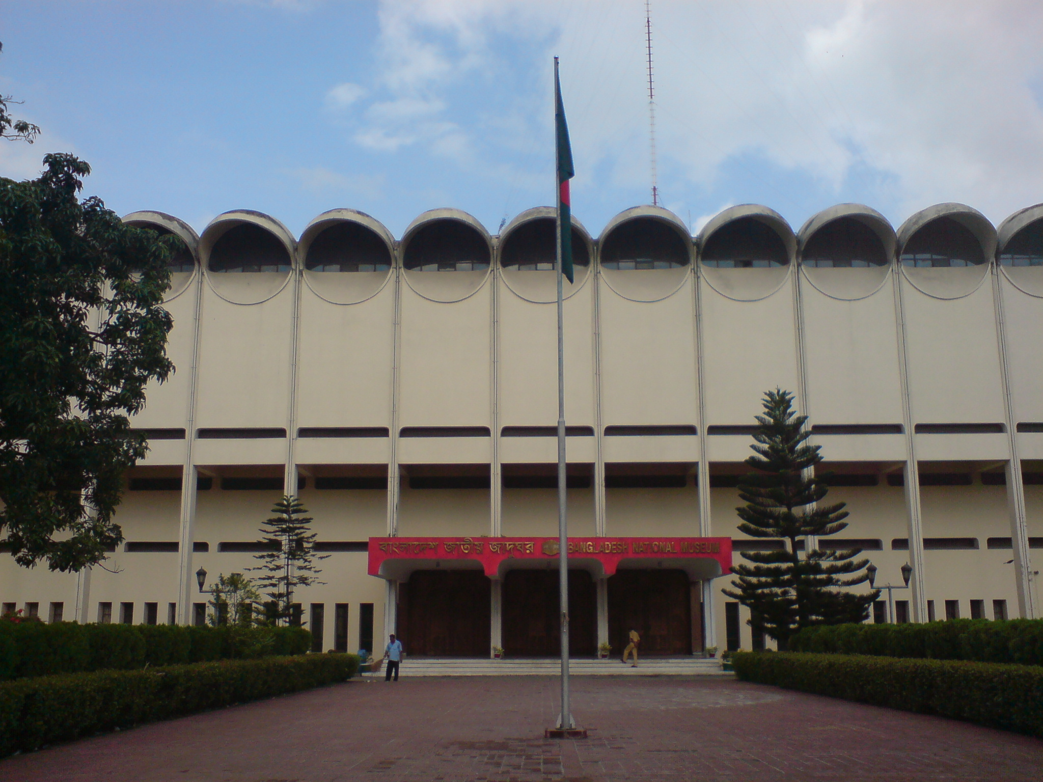 Picture of National Museum at Shahbag, Dhaka.